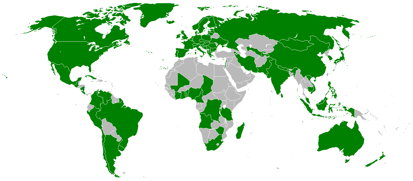 A map of states where are national UEA sections.